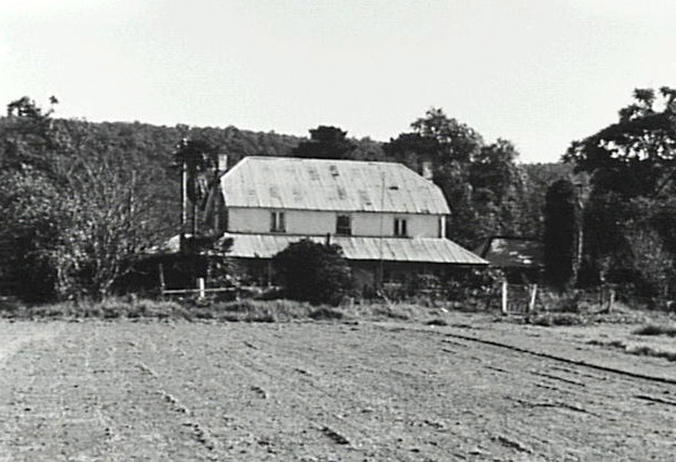 Hadley Park, Castlereagh, Sydney (image has been altered by User:Sardaka for cropping, 2015-8-3)